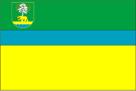 Flags of Sosnytskyi Raion